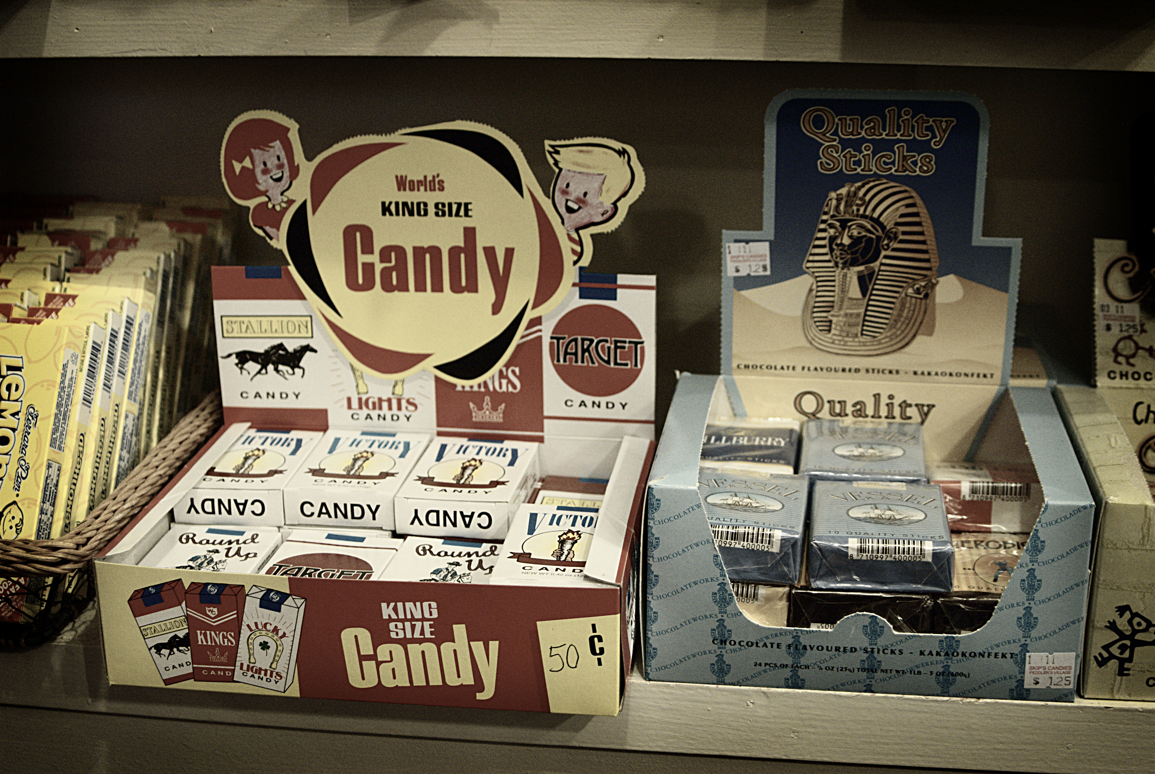 When I was young, these were called "candy cigarettes." Now they're just candy or "sticks. That's completely different.